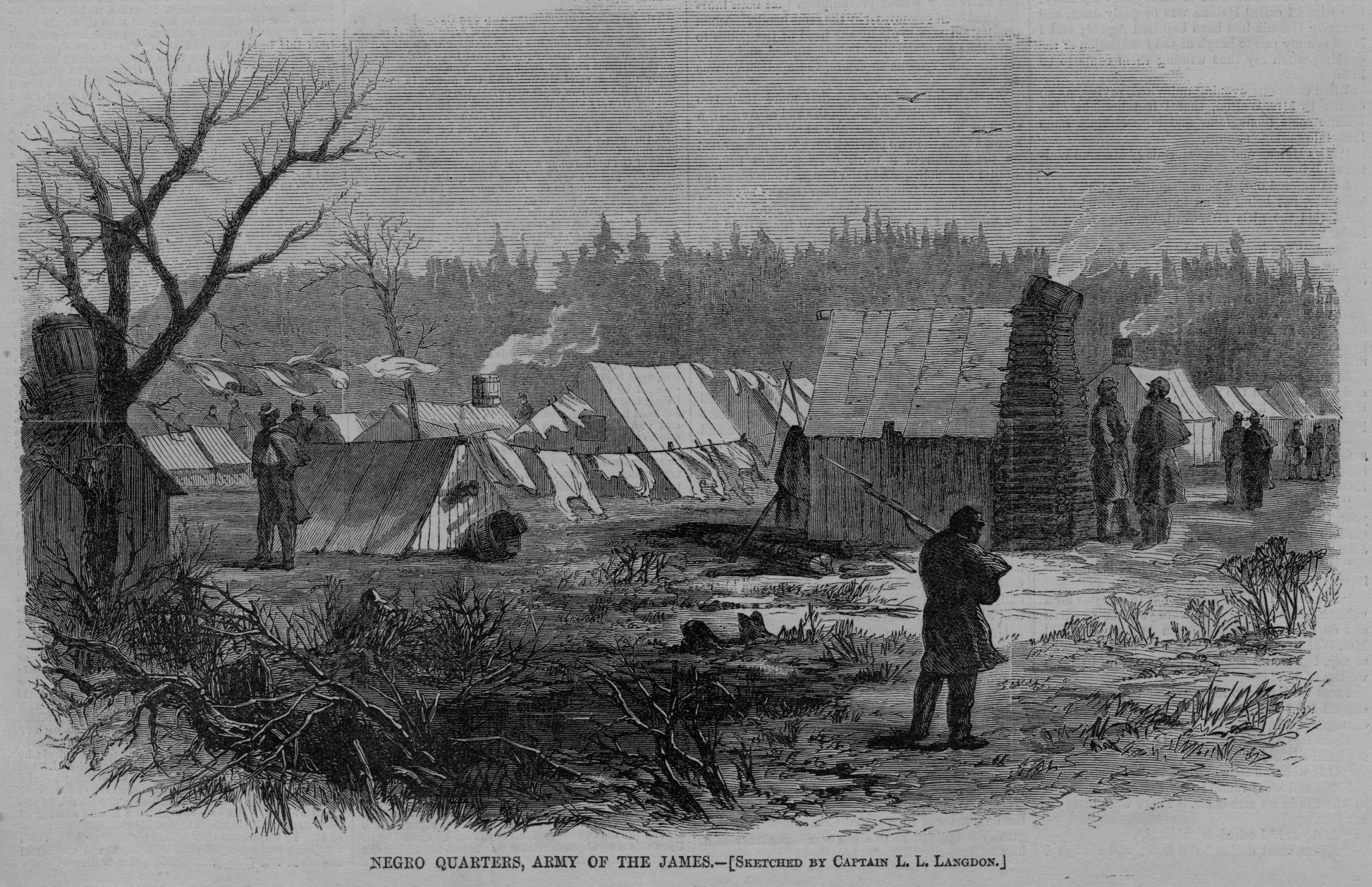 Publisher: Harper & Brothers, Publishers Publication Date: 1865-02-25 Rights: Materials in this collection are in the public domain, and thus are free of any copyright restriction. We ask that you acknowledge the VCU Libraries if any of the materials are used. Reference URL: Collection: Richmond Nineteenth-Century Print Collection